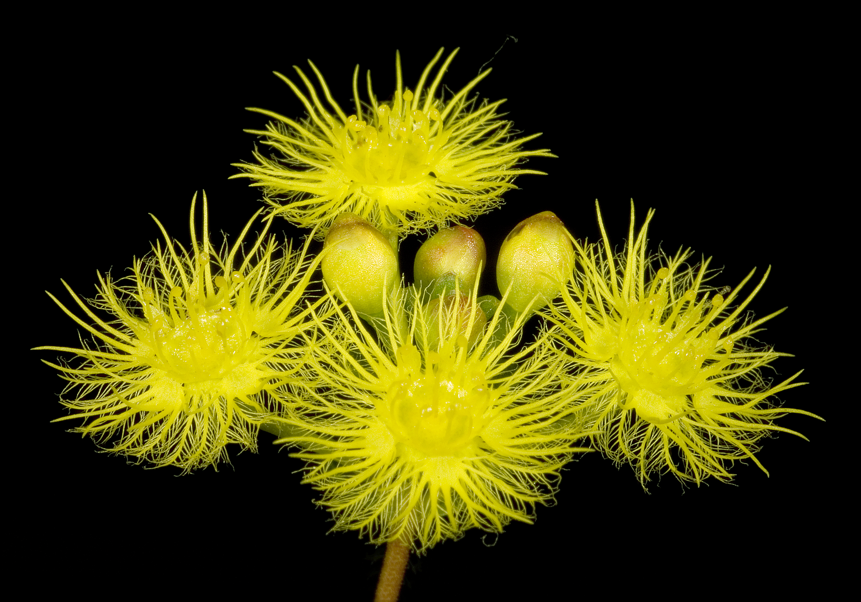 KL Brown 764